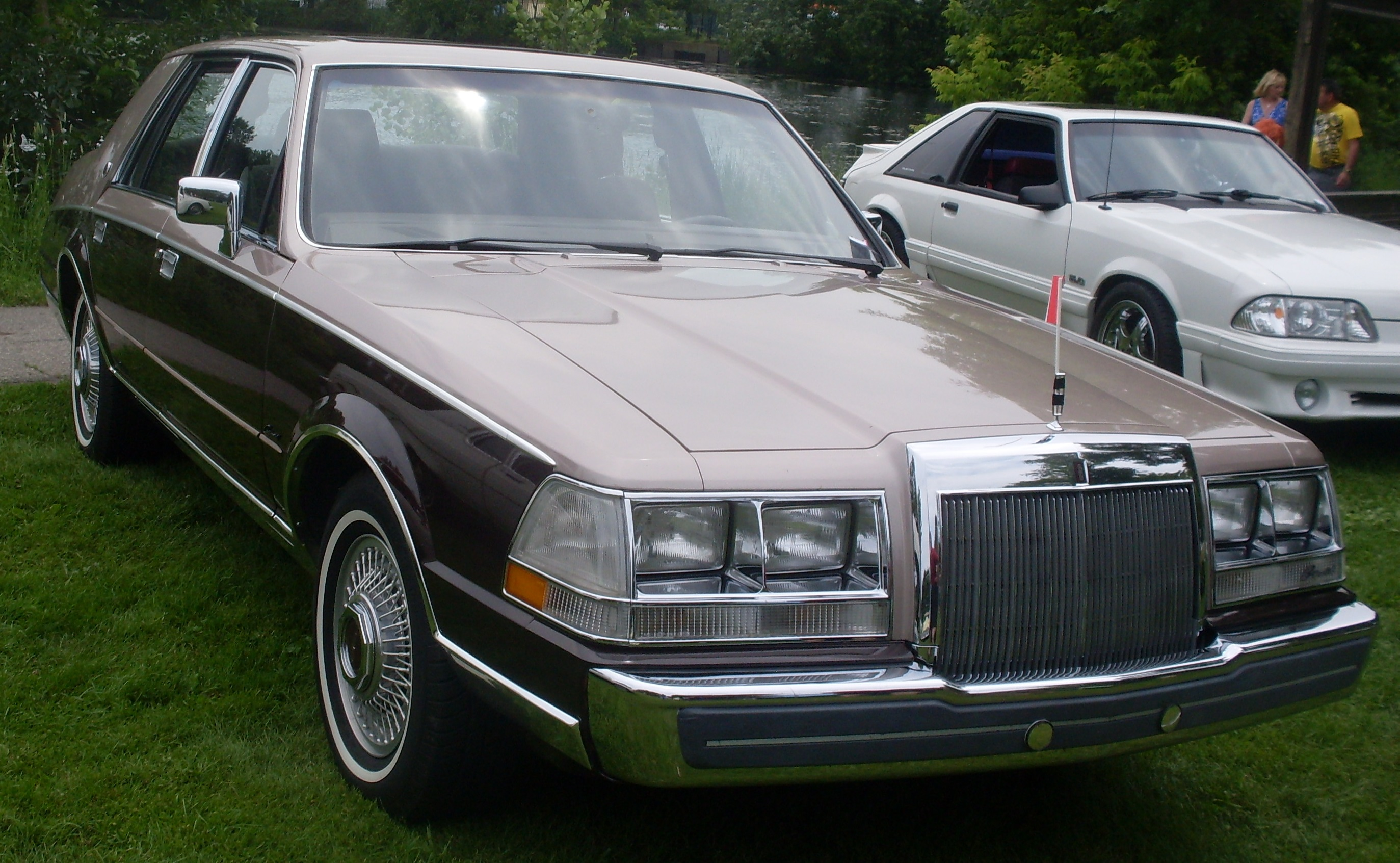 Lincoln Continental photographed in St. Bruno De Montarville, Quebec, Canada at Rassemblement VAQ St-Bruno-De-Montarville 2013.